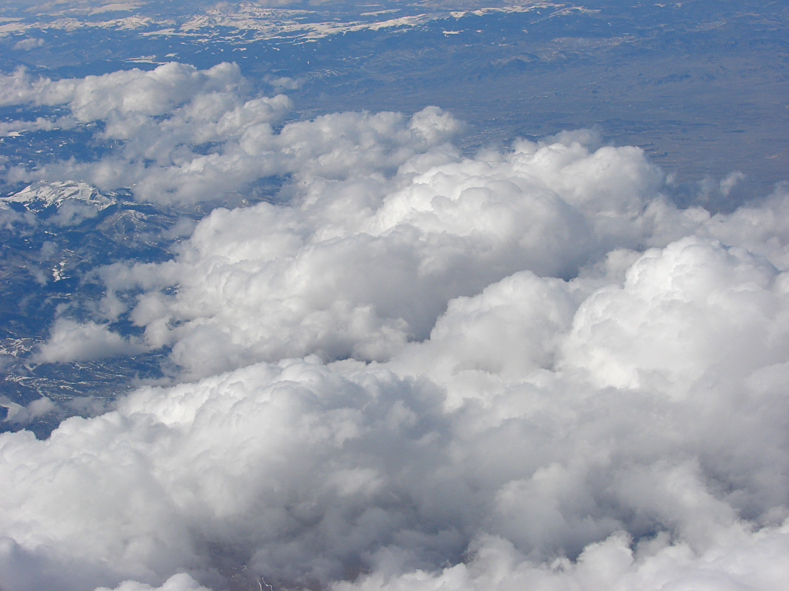 Stratocumulus clouds viewed from above